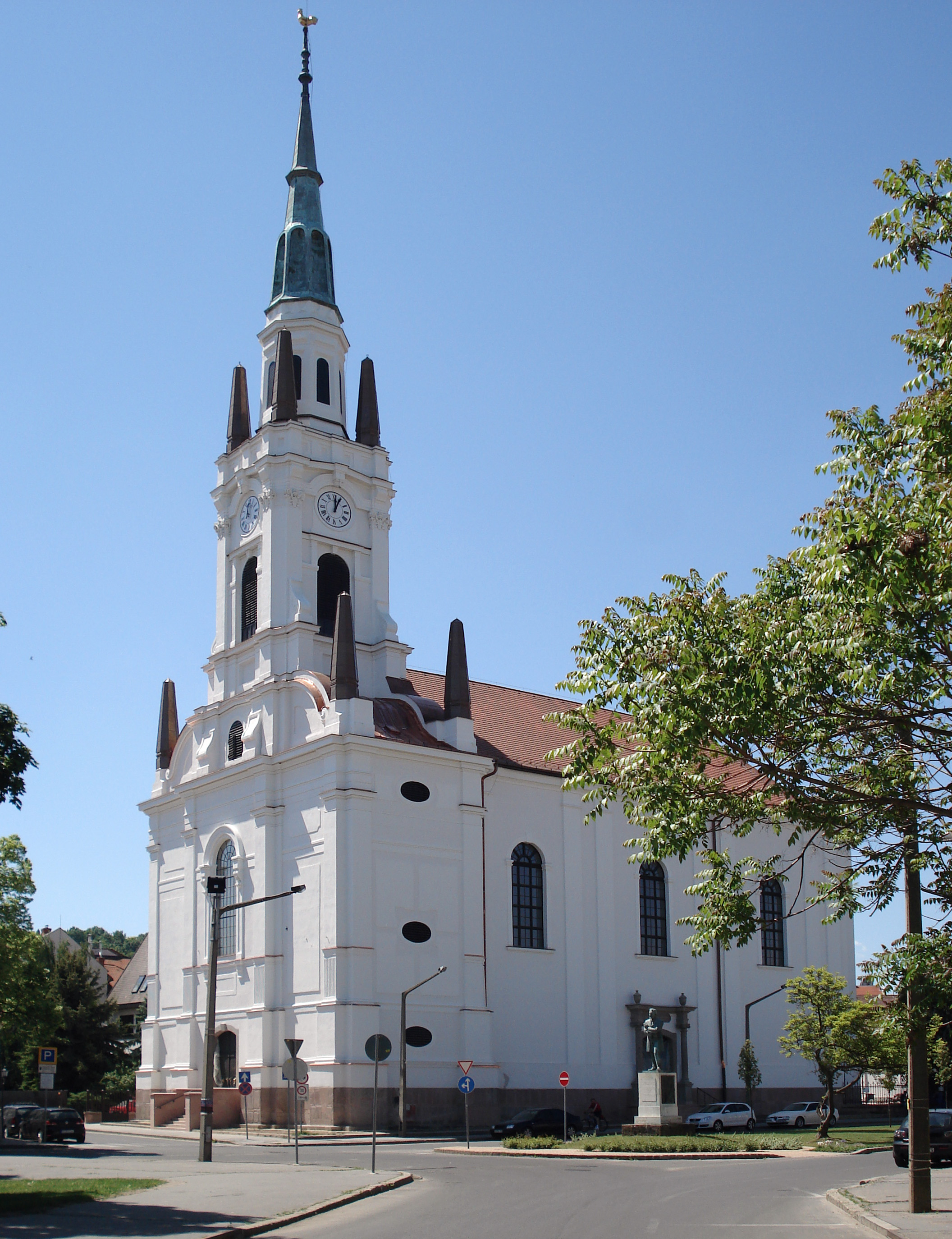 Downtown Reformed ("Rooster") Church, Miskolc, Hungary (2011)